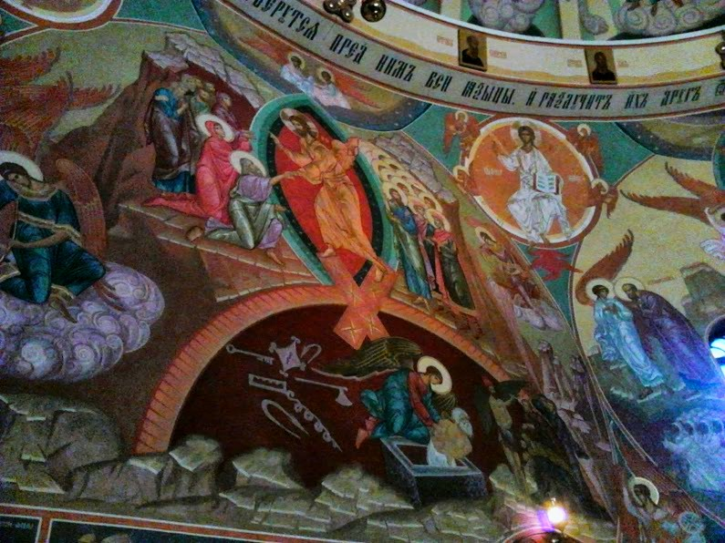 Polychromy in Orthodox Holy Spirit church in Białystok.